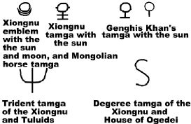 Xiongnu and Mongolian tamga